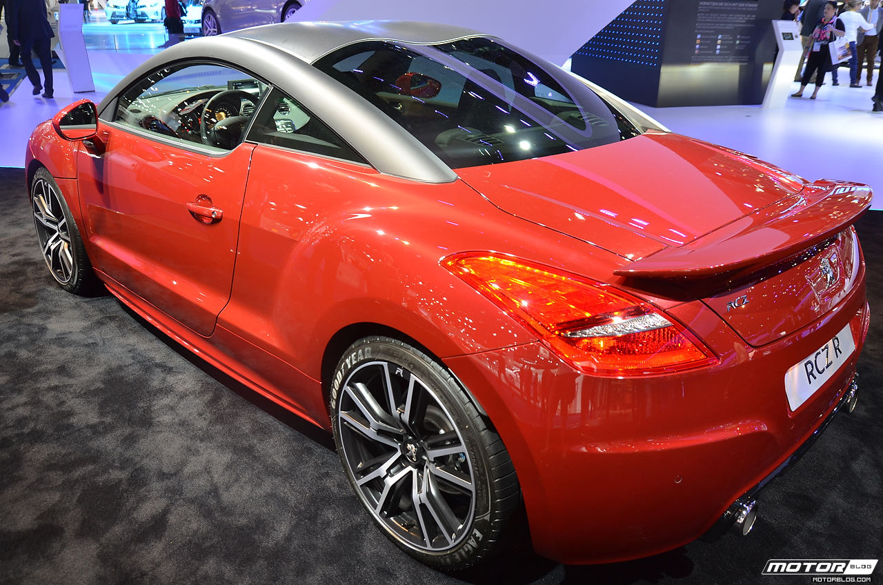 IAA Frankfurt 2013: Peugeot RCZ R / Photo: Raphael Jahn ______________________ Please feel free to use this image for FREE under the Creative Commons (CC) licence. However, if you use the image, pls set a backlink to and give credit as following: "Image: ". For highres images or any other inquiries pls contact mailto: . Thanks.